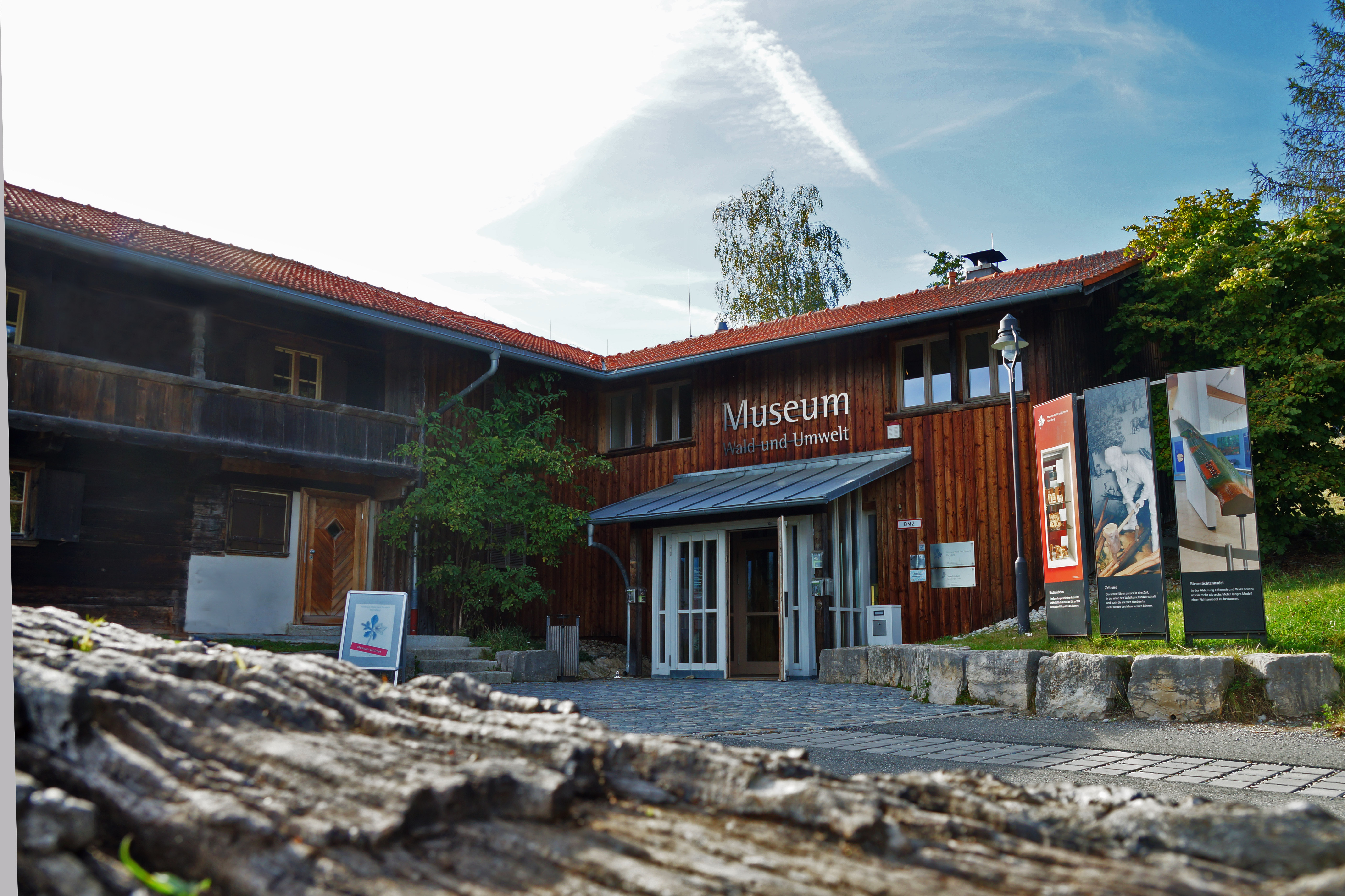 Ebersberg, Museum Wald und Umwelt. Wikidata has entry Q19964042 with data related to this item.